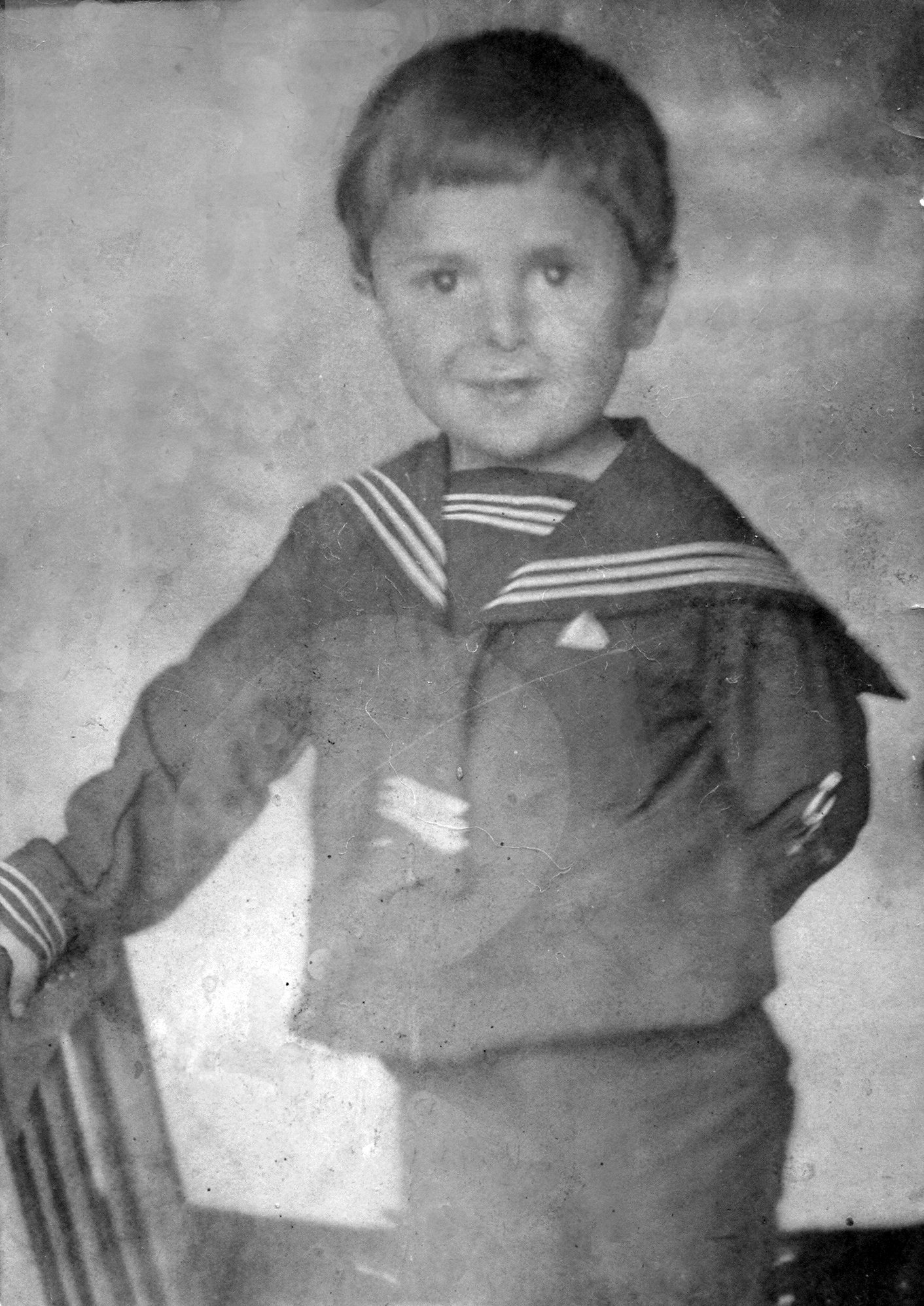 Edvard Chubaryan 75th Birthday, 05 May 2011 05, No. 10